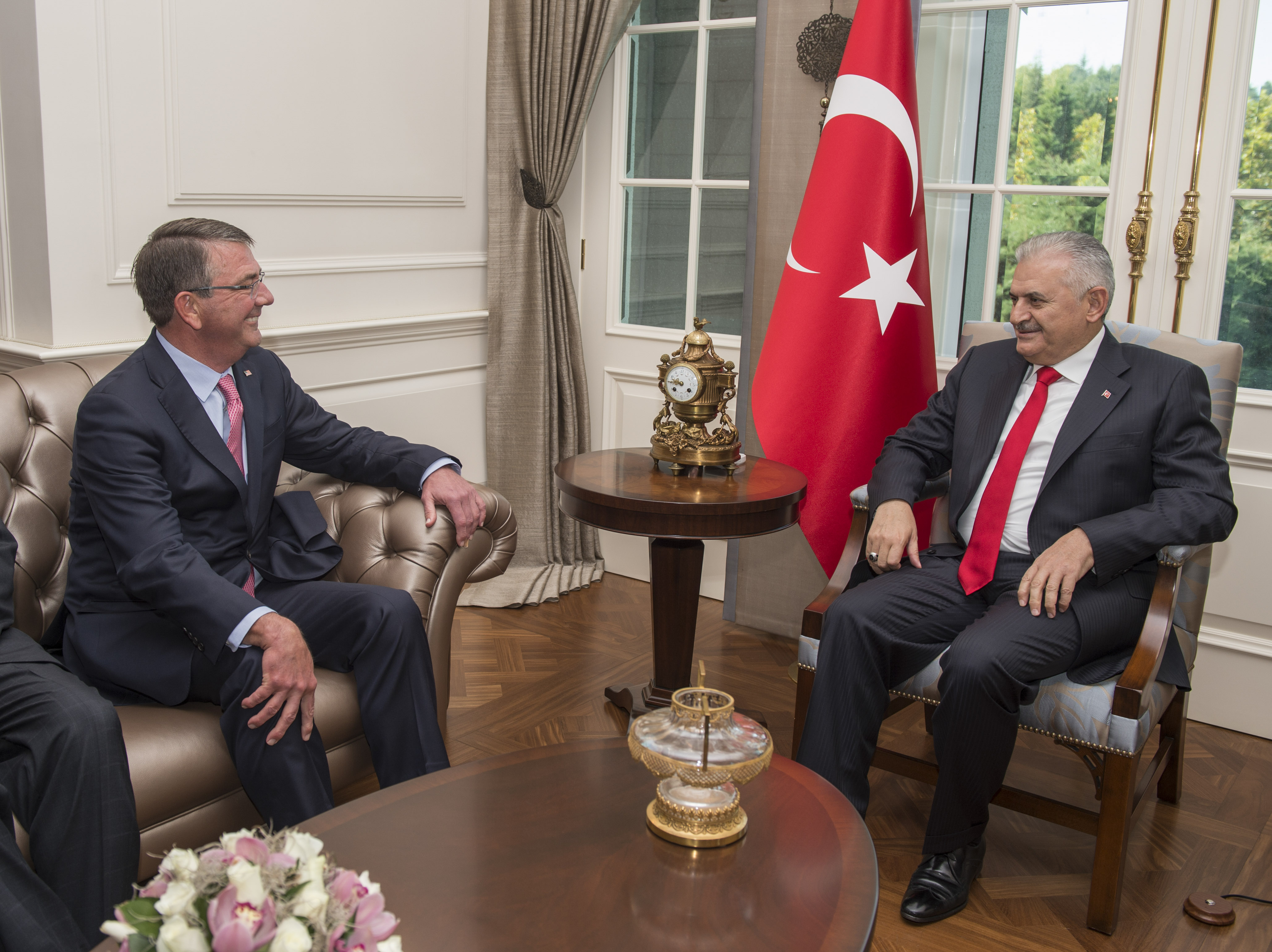 Secretary of Defense Ash Carter meets with Turkish Prime Minister Binali Yildirim in Ankara, Turkey, Oct. 21, 2016.